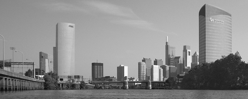 Philadelphia skyline from the Schuylkill River, south of the South Street Bridge - from a kayak